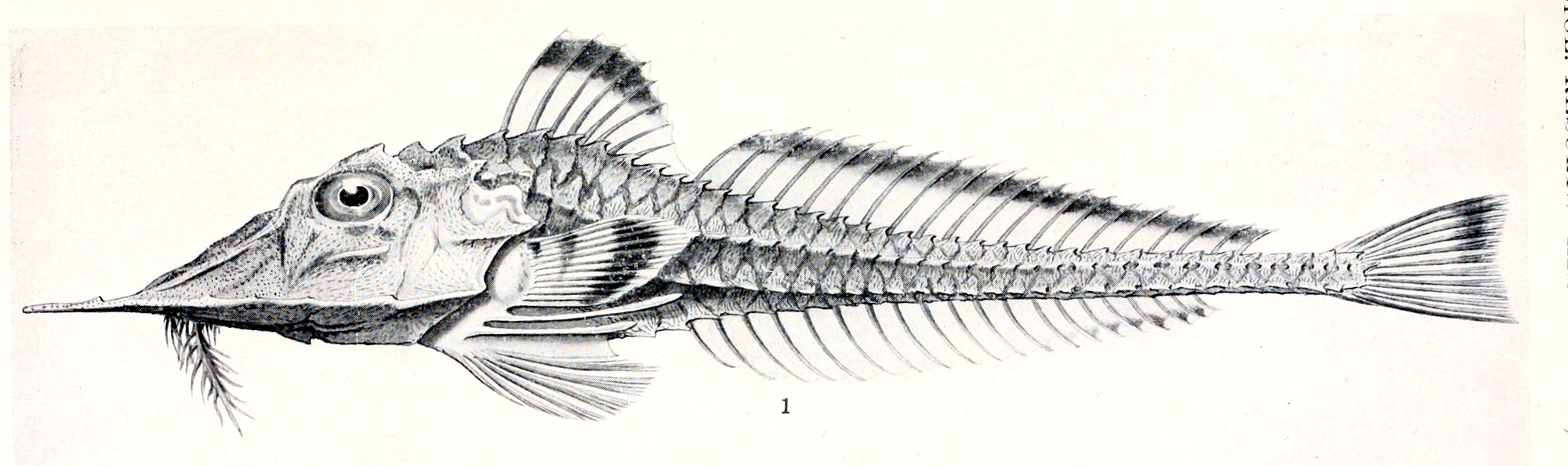 Peristedion picturatum